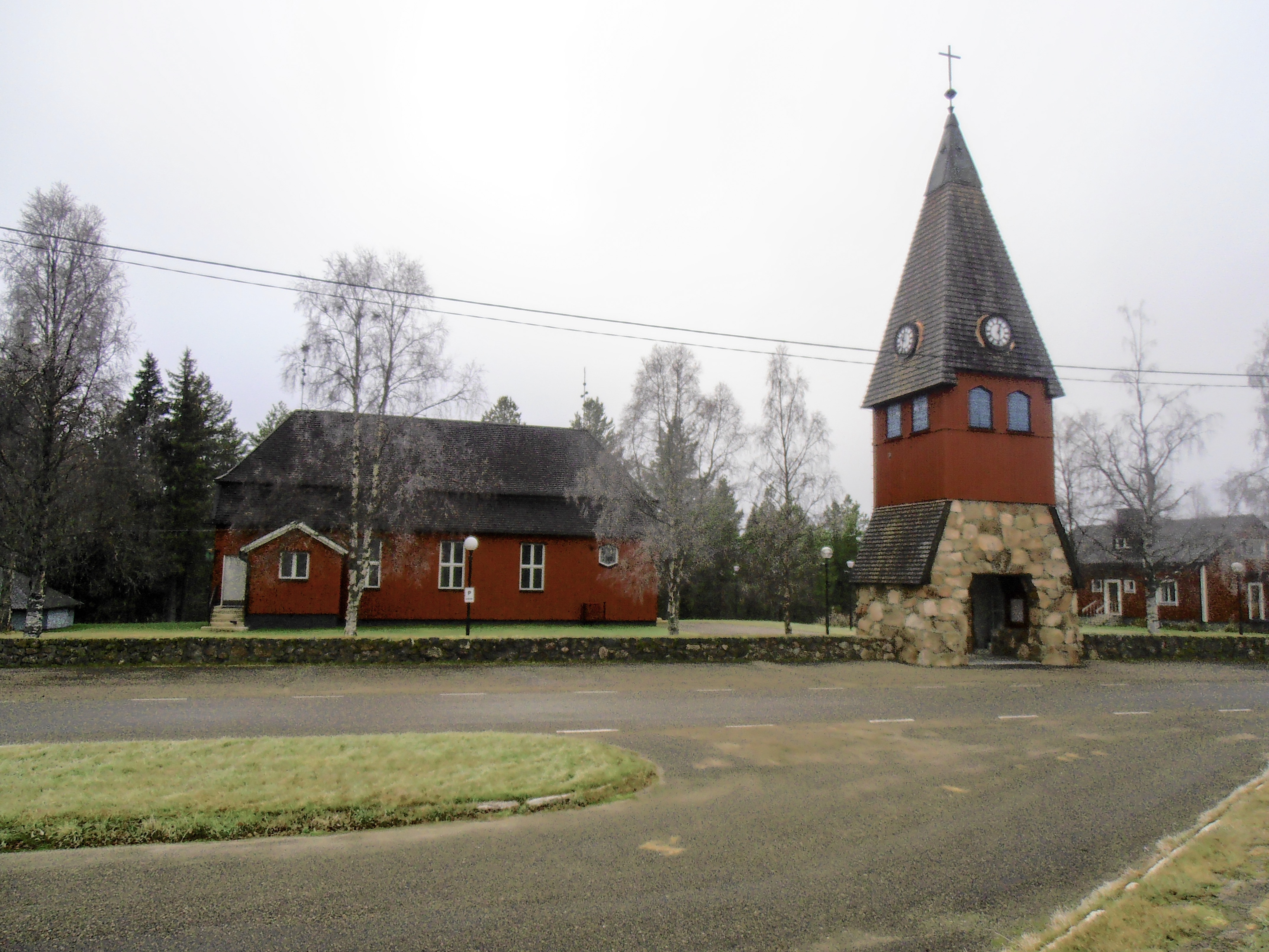 The Church of Nilivaara